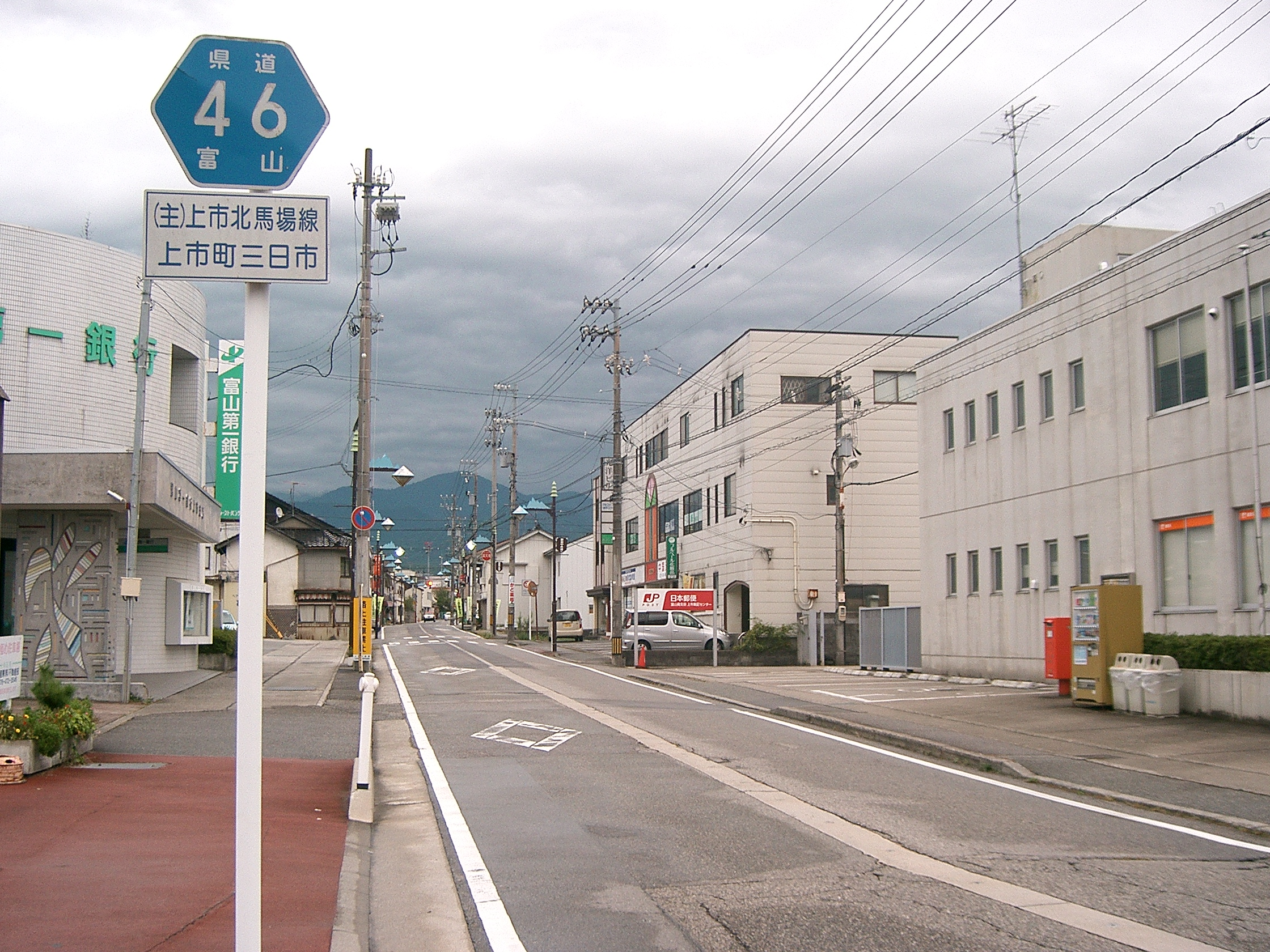 Toyama prefectural road 46 Kamiichi-KItabamba line. Looking east from Kamiichi-ekimae intersection, Kamiichi town.